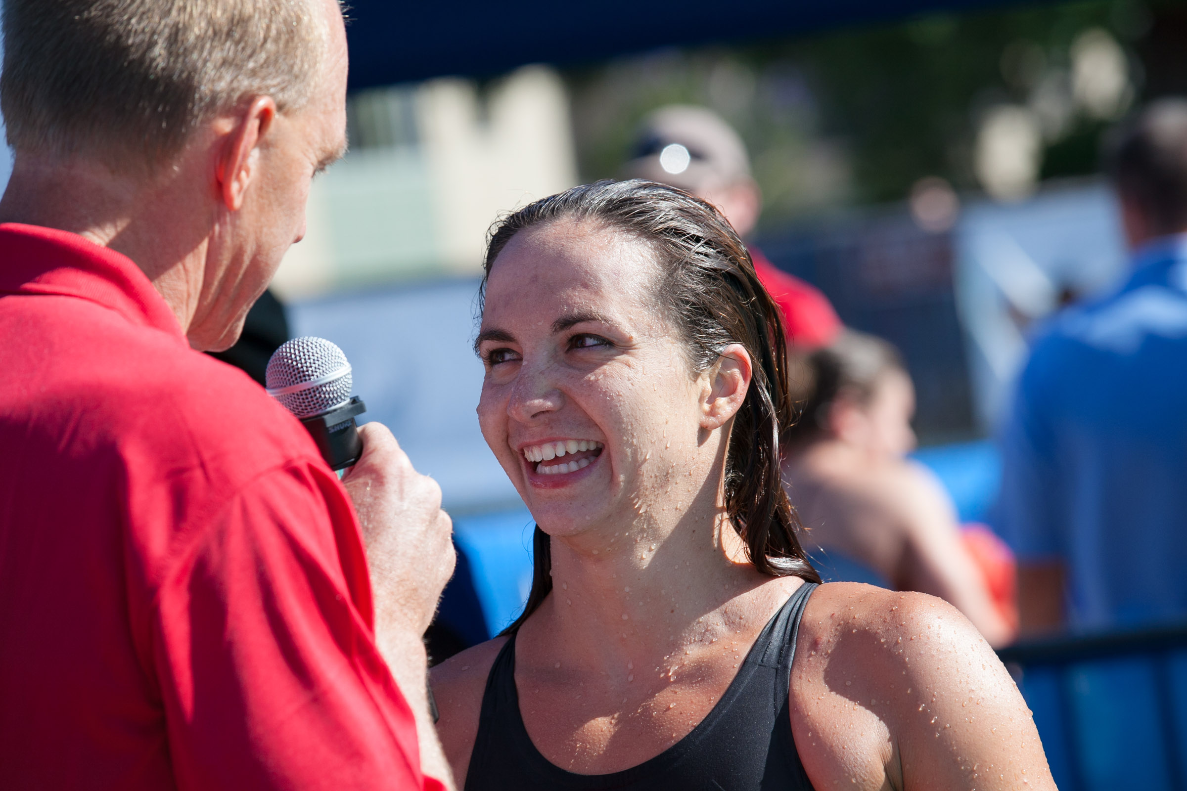 Rowdy Gaines interviews Audrey Lacroix